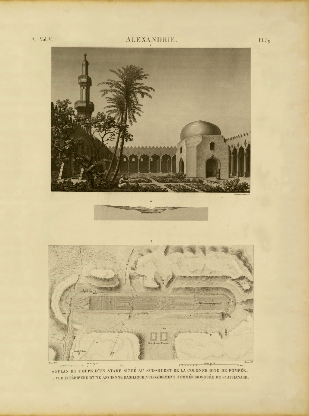 The lower part of the image represents the outline of the Hippodrome of Alexandria